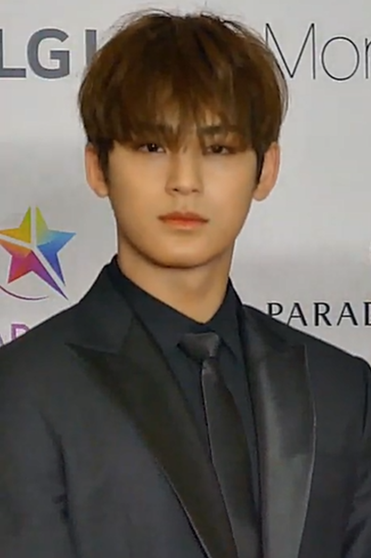 Kim Min-gyu on the red carpet of the Asia Artist Awards on November 28, 2018.